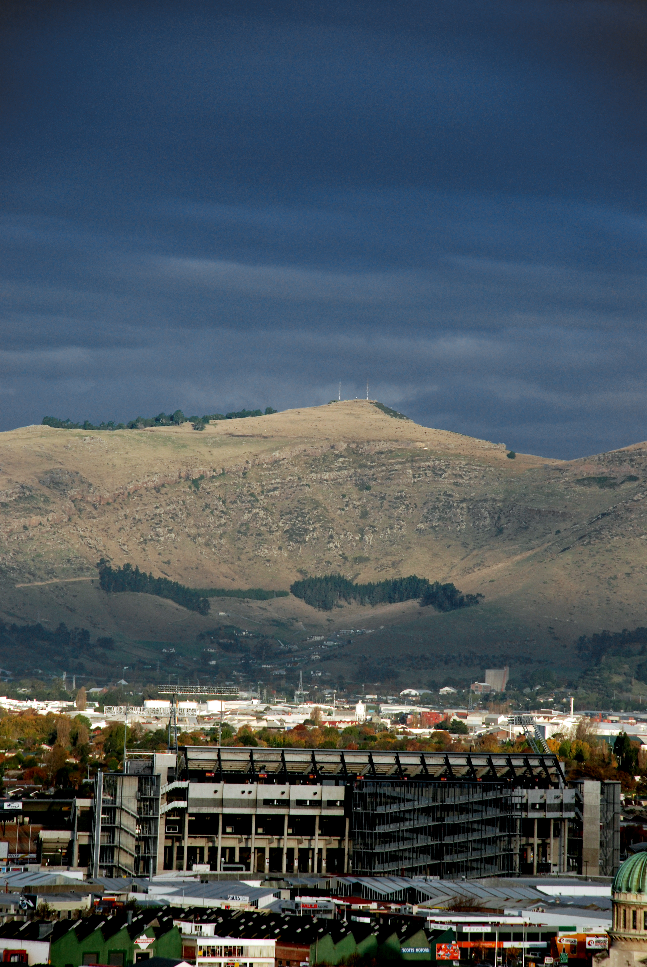 A never to be repeated shot from the top floor of the earthquake-wrecked Grand Chancellor Hotel, with AMI (then Jade) Stadium in the foreground and two masts on top of Mount Pleasant in the background.